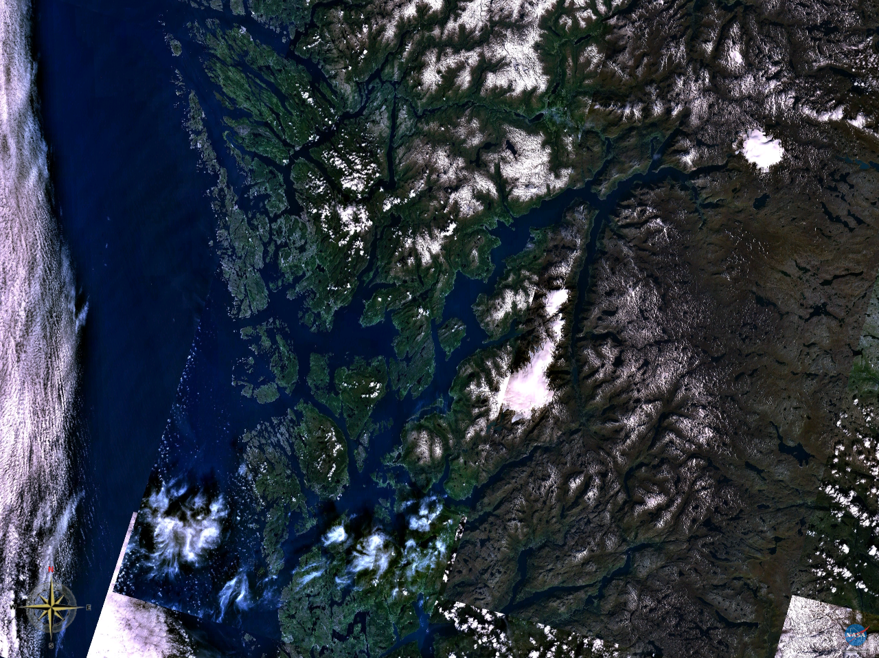 Satellite imagery of Hardangerfjorden in Hordaland.